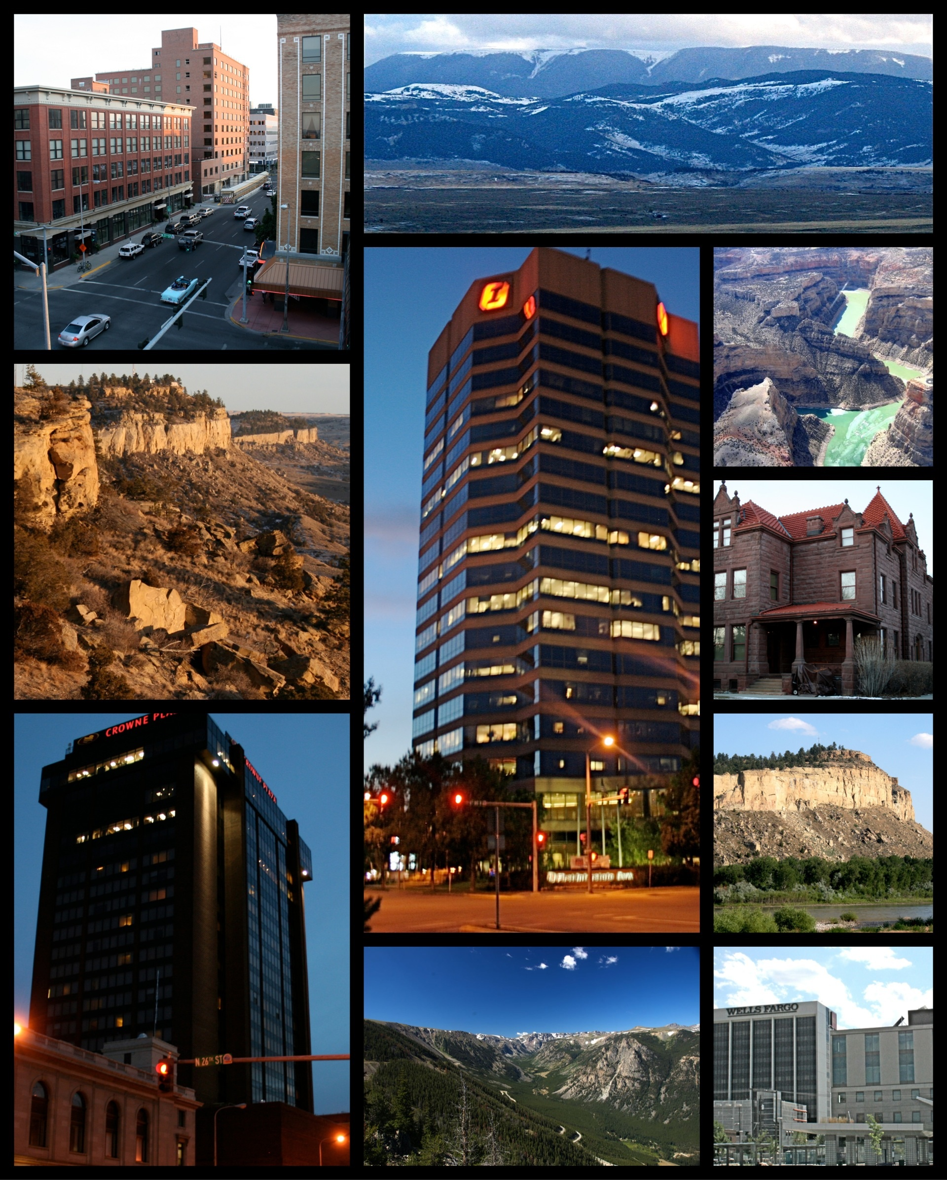 Billings, Montana